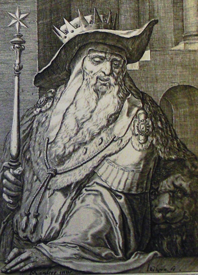 A print from the Phillip Medhurst Collection of Bible illustrations in the possession of Revd. Philip De Vere at St. George’s Court, Kidderminster, England.